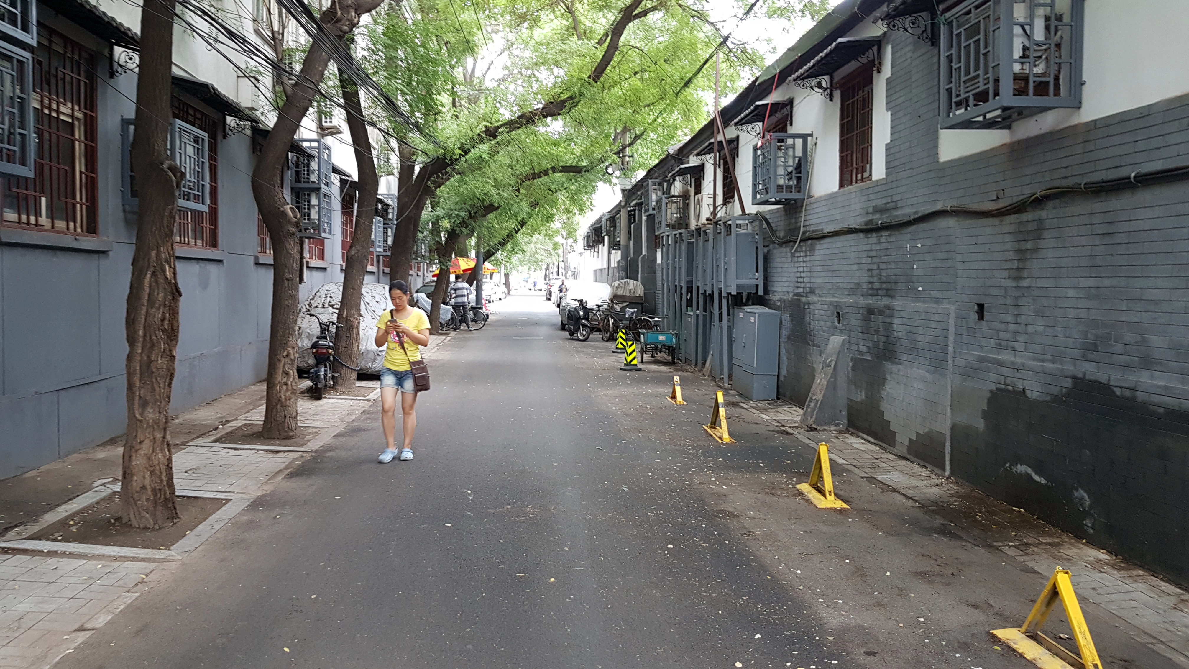 Beijing Hutongs near Forbidden City (Dongchang Hutong)